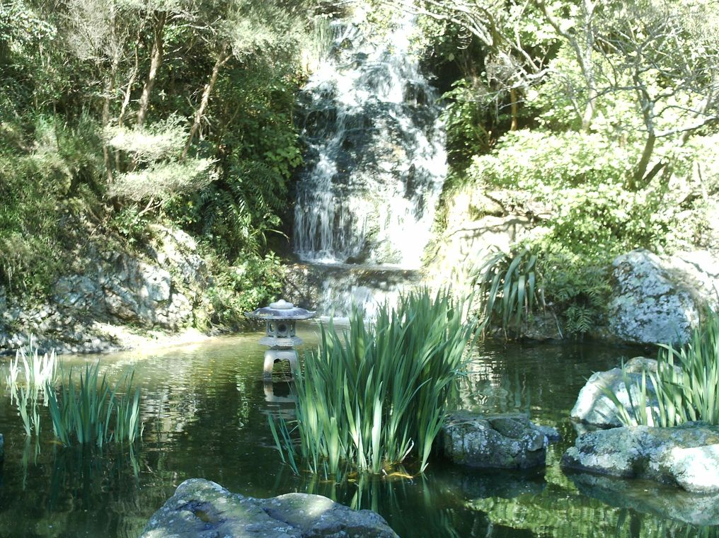 Pond and lantern in the Peace Garden of the Wellington Botanic Gardens, Wellington, New Zealand.